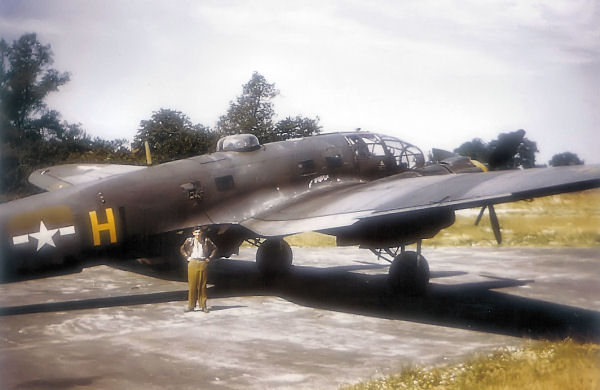 A captured German late model Heinkel He 111H bomber of the U.S. Air Force 56th Fighter Group at Boxted Airfield, England.